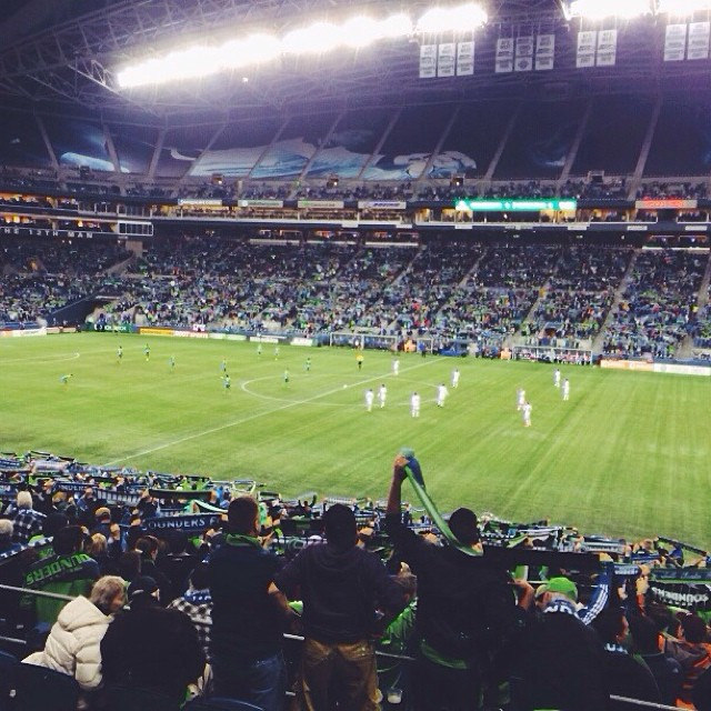 The Cascadia Cup at CenturyLink field.